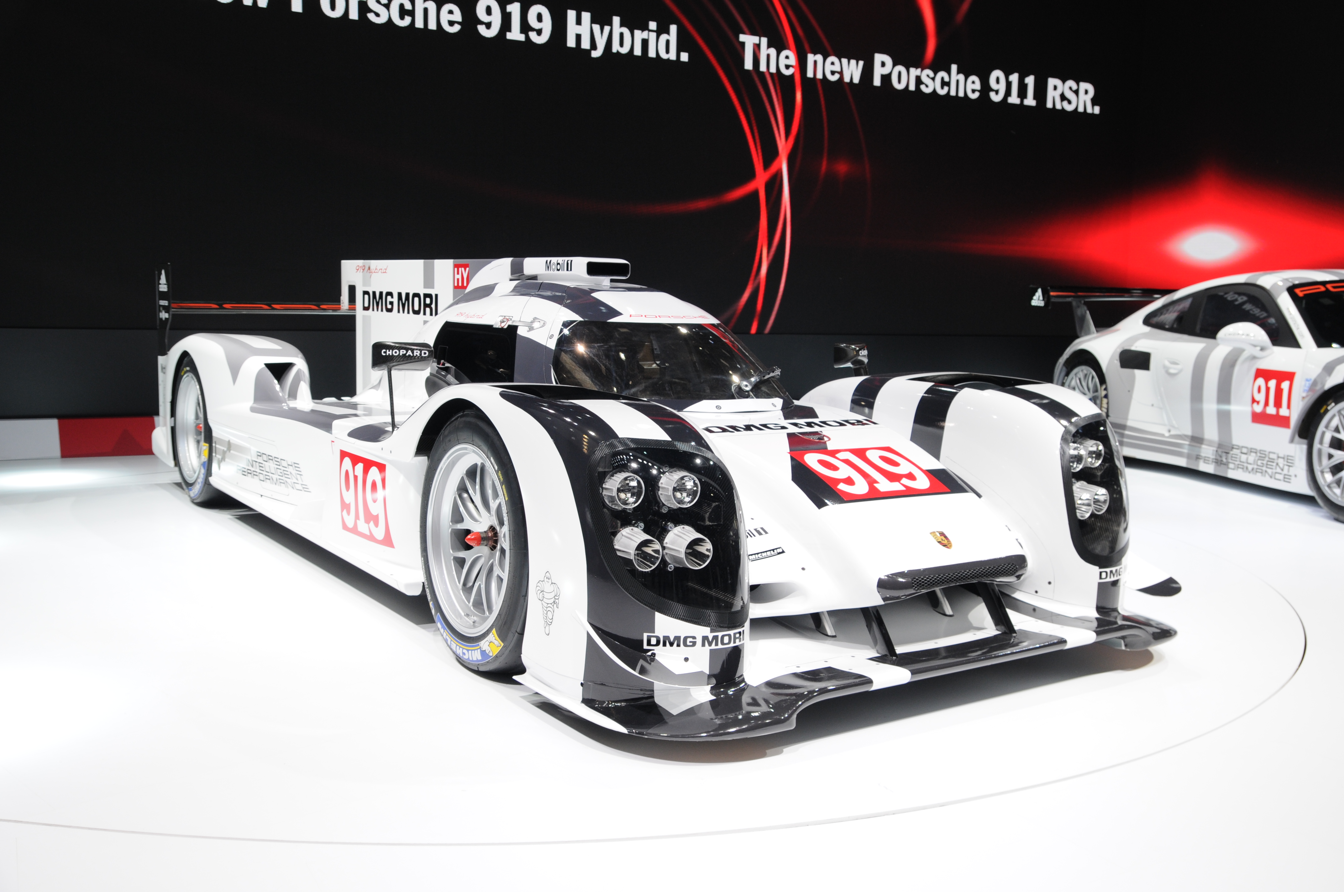 Geneva Motor Show 2014 (photo taken on the first press day)